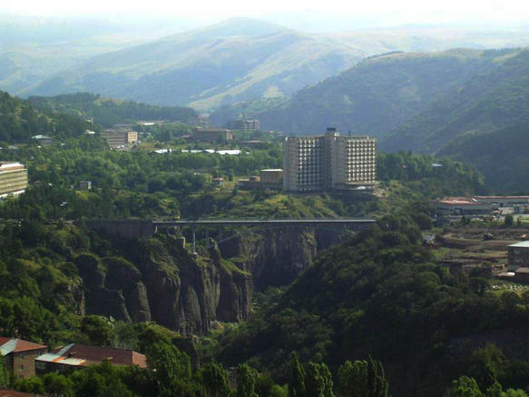 view from the town of Jermuk